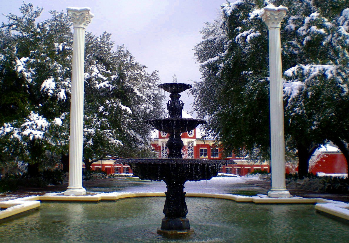 The Fountain on the campus of Belhaven University in Jackson, Mississippi.